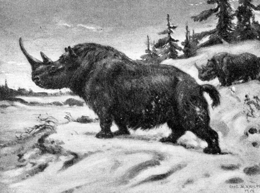 The woolly rhinoceros Rhinoceros antiquitatis